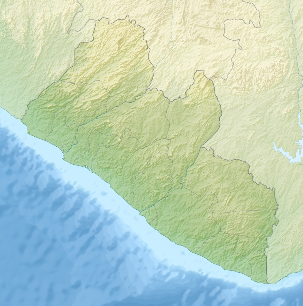 Relief location map of Liberia. Projection: Equirectangular projection, strechted by 101.0%. Geographic limits of the map: N: 8.8° N S: 4.0° N W: -11.8° E E: -7.0° E GMT projection: -JX16.933333333333334cd/17.102666666666668cd GMT region: -R-11.8/4.0/-7.0/8.8r GMT region for grdcut: -R-11.8/4.0/-7.0/8.8r Relief: SRTM30plus. Made with Natural Earth. Free vector and raster map data @ .